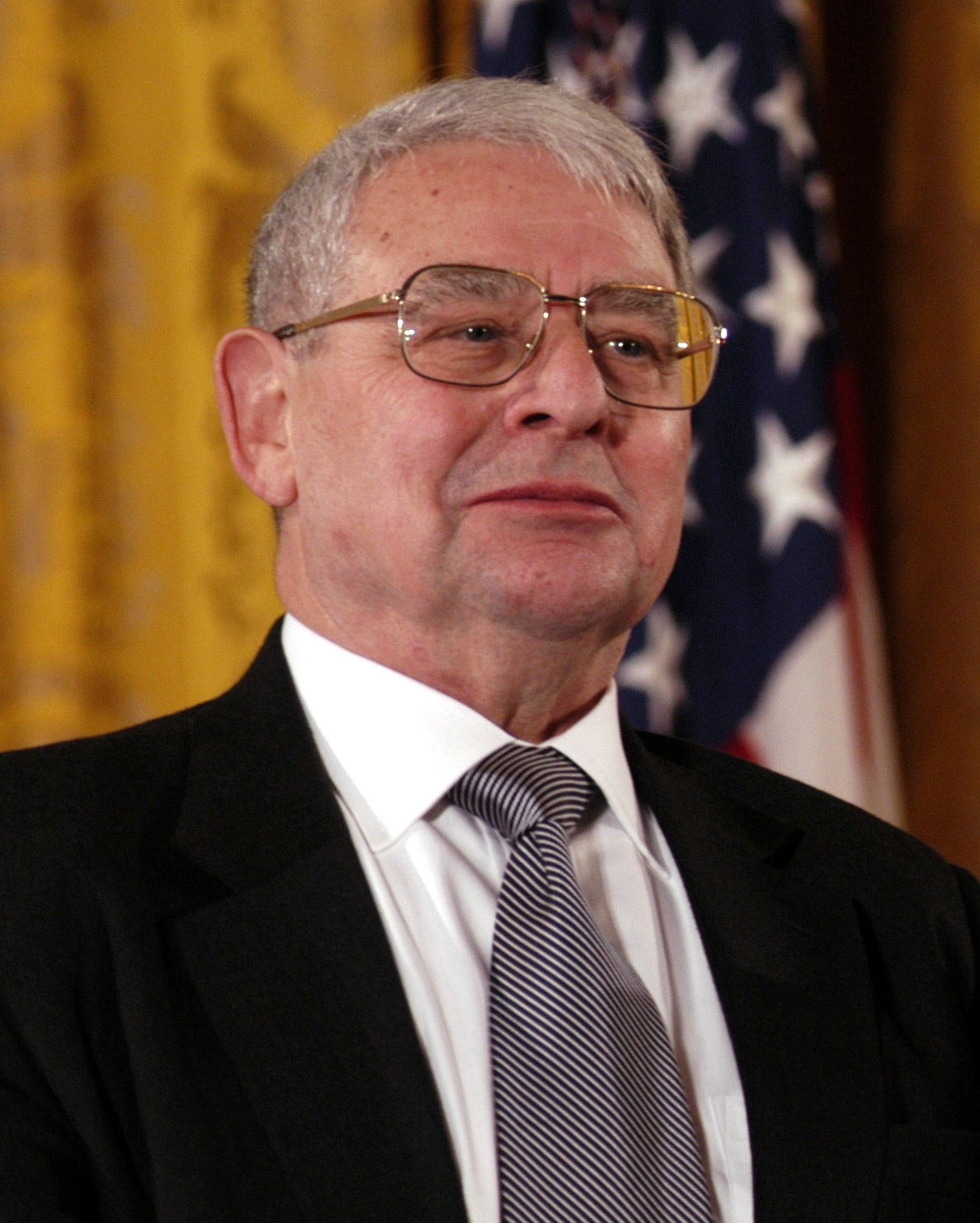 Riccardo Giacconi receiving the 2003 National Medal of Science